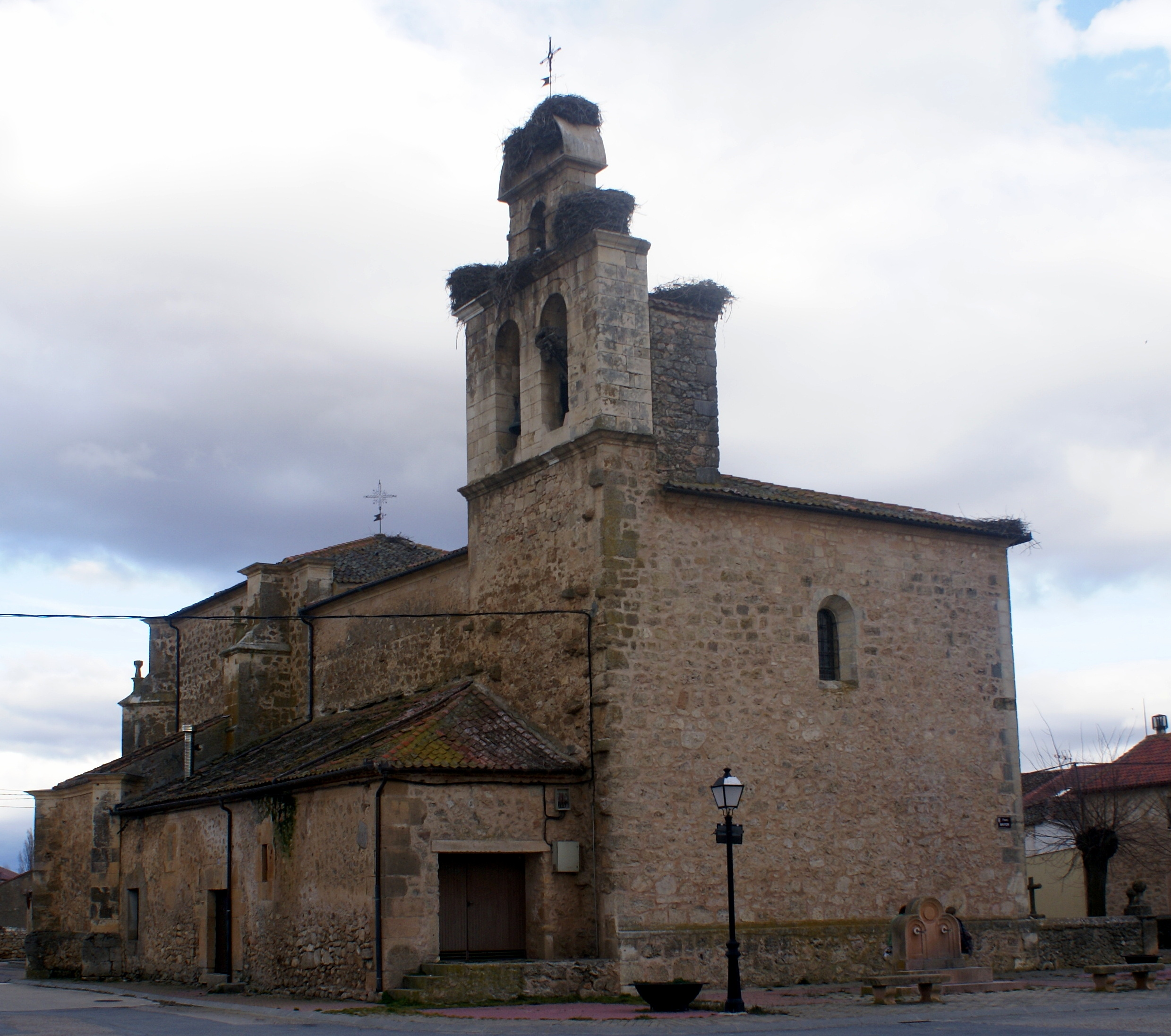 Church of Barbolla, Segovia, Spain.